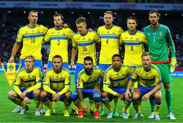 Sweden men's national association football team 2015